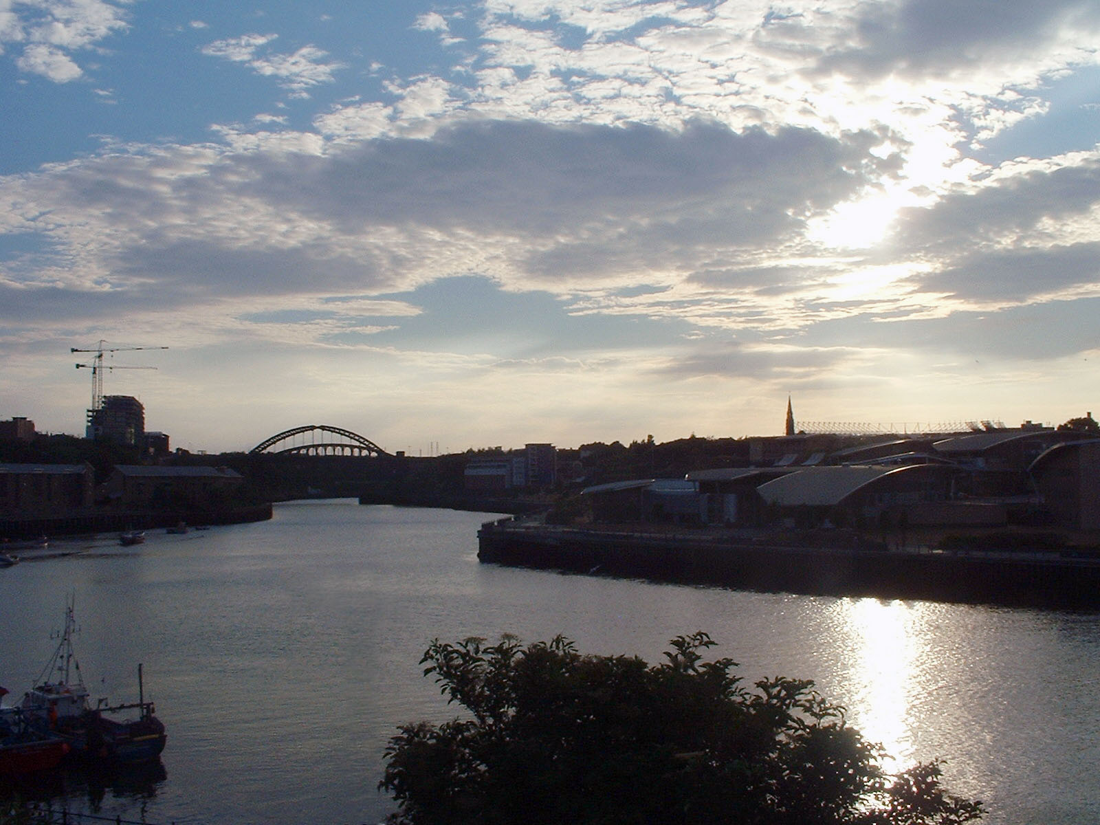 Wearmouth Bridge at sunset